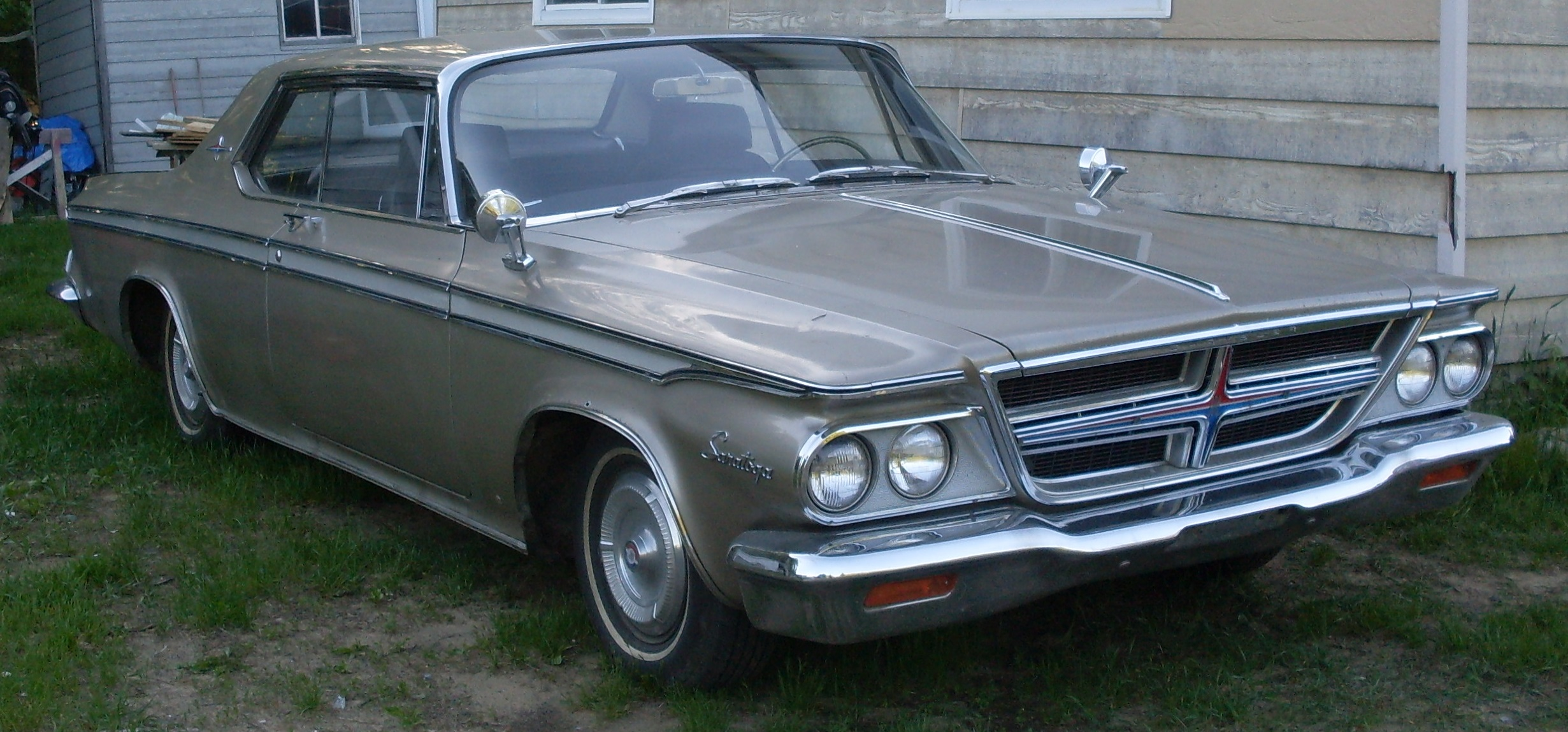 1964 Chrysler Saratoga 300 (Canadian) photographed in Terrebonne, Quebec, Canada.